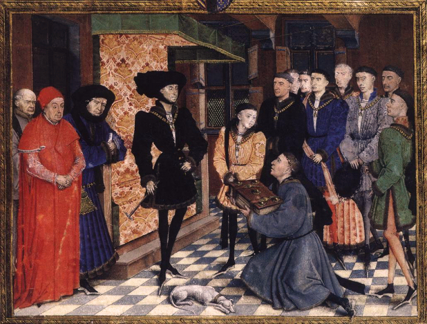 frontispiece of the Chroniques de Hainaut Depicted people: Jean Wauquelin, Philippe le Bon, Charles le Téméraire, Nicolas Rolin and Jean Chevrot